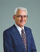 photograph